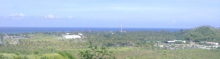 Poblacion Malita from a view deck